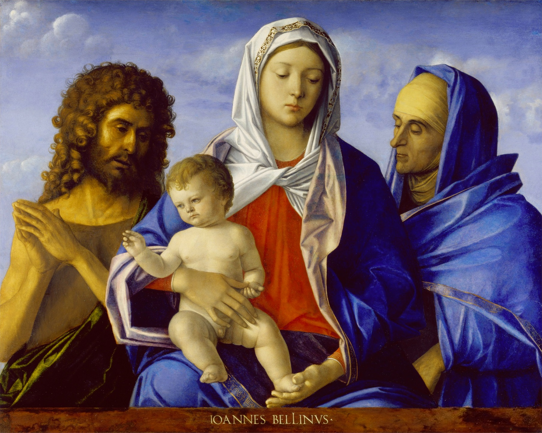 Madonna and Child with John the Baptist and Saint Elizabethlabel QS:Lit,"Madonna con Bambino e San Giovanni Battista e Santa Elisabetta" label QS:Lde,"Madonna mit Kind, Johannes dem Täufer und der heiligen Elisabeth" label QS:Len,"Madonna and Child with John the Baptist and Saint Elizabeth" label QS:Lru,"Мадонна с младенцем и Иоанном Крестителем и Святой Елизаветы"